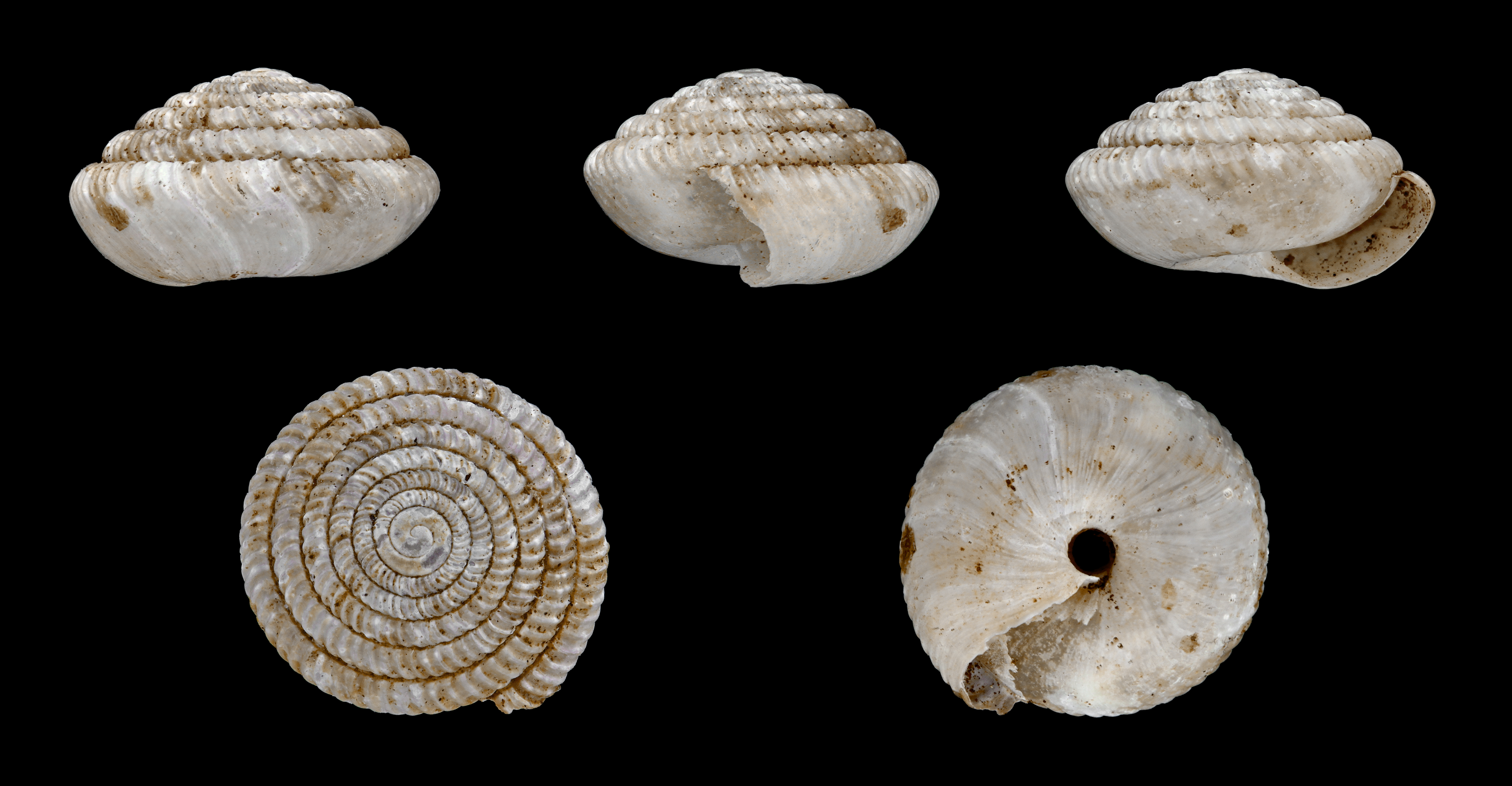 Diameter 0.8 cm; Originating from the Jardim Botânico da Madeira, Funchal, Madeira, Portugal; Shell of own collection, therefore not geocoded.